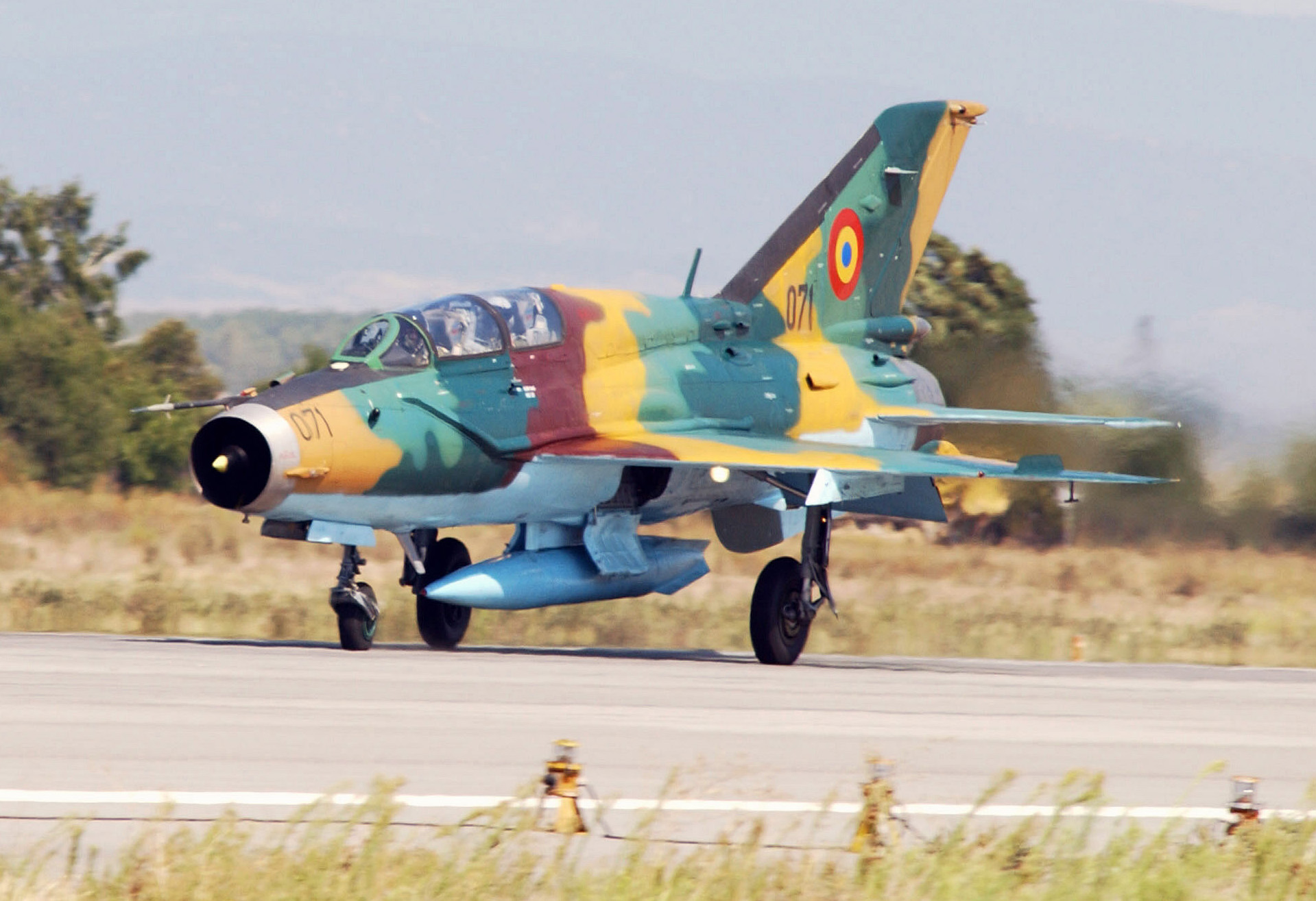 A Russian designed MiG-21UM Lancer B fighter aircraft from Romania (ROM), arrives in support of the Partnership for Peace Exercise Cooperative Key 2003 at Graf Ignatievo Air Base (AB), Bulgaria (BGR).